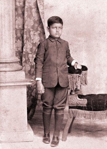 Indian wrestler Jatindra Charan Guho, popularly known by his ring name Gobar Guha was the first Asian to win the World Light Heavyweight Championship in the United States in 1921.